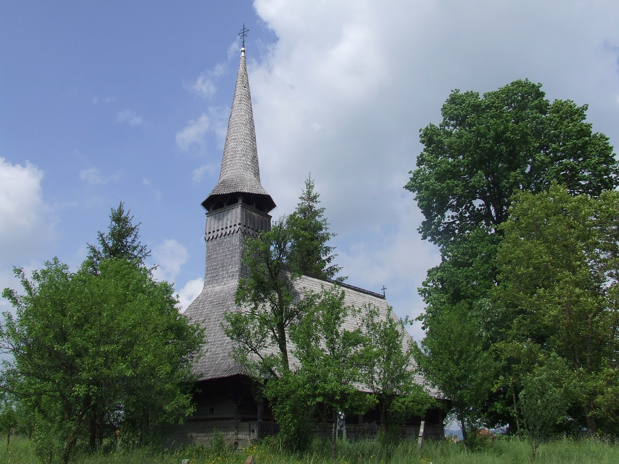 wooden church in Beznea village, Bihor County, Romania